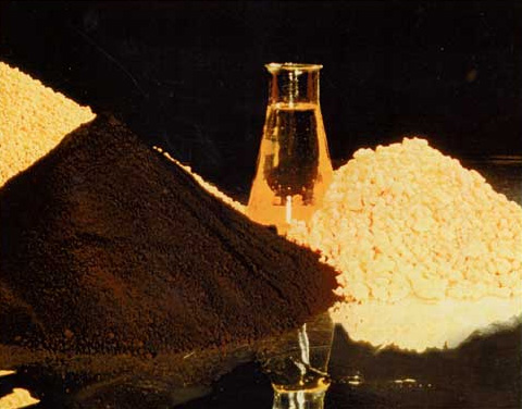 Chemical forms of uranium during conversion: yellowcake (back left), uranyl nitrate solution [UO2(NO3)2] (in flask), solid ammonium diuranate [(NH4)2U2O7] (back right), uranium dioxide [UO2], and uranium tetrafluoride [UF4] (disputed – see ).